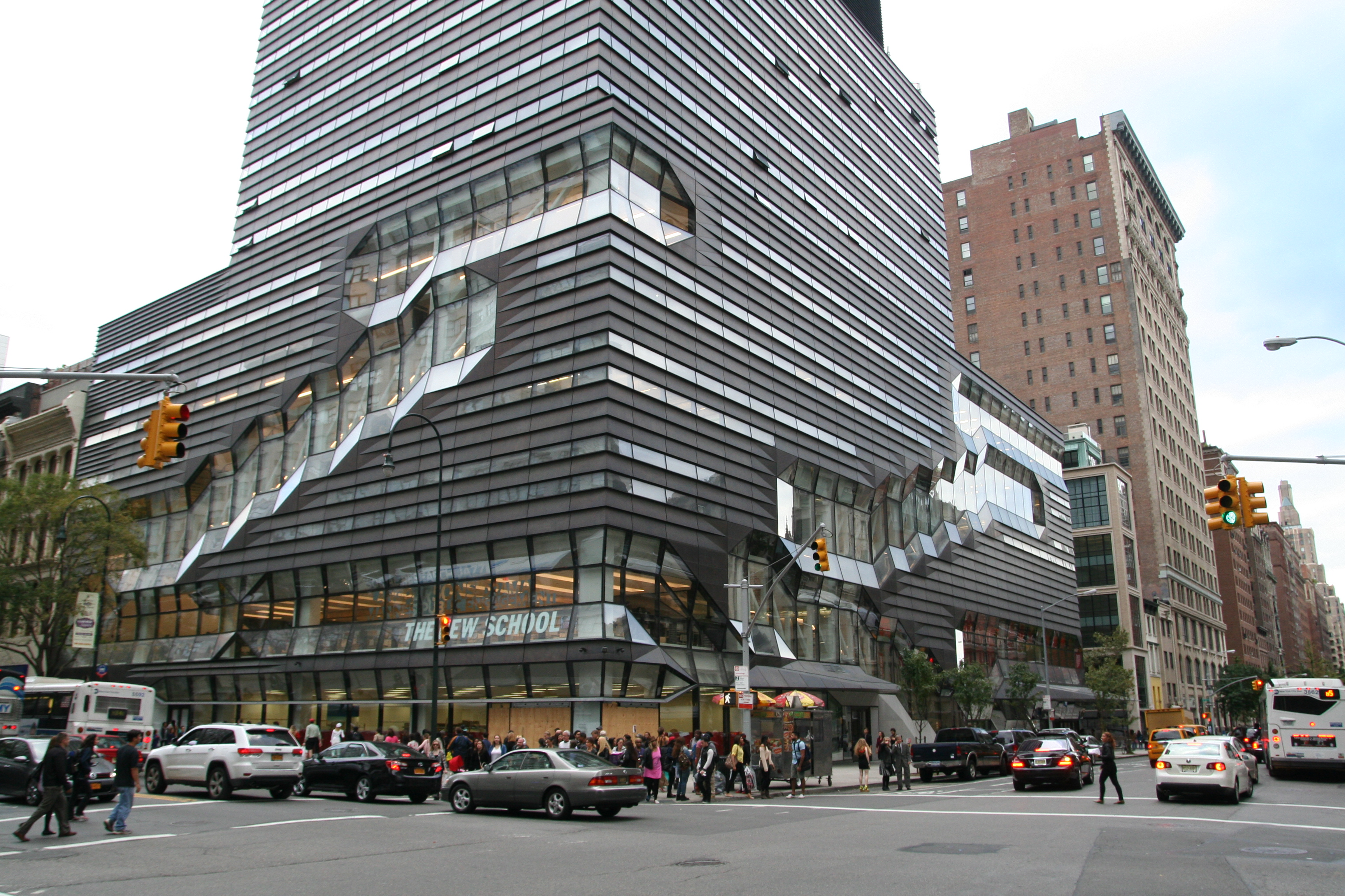 The New School University Center in October 2014